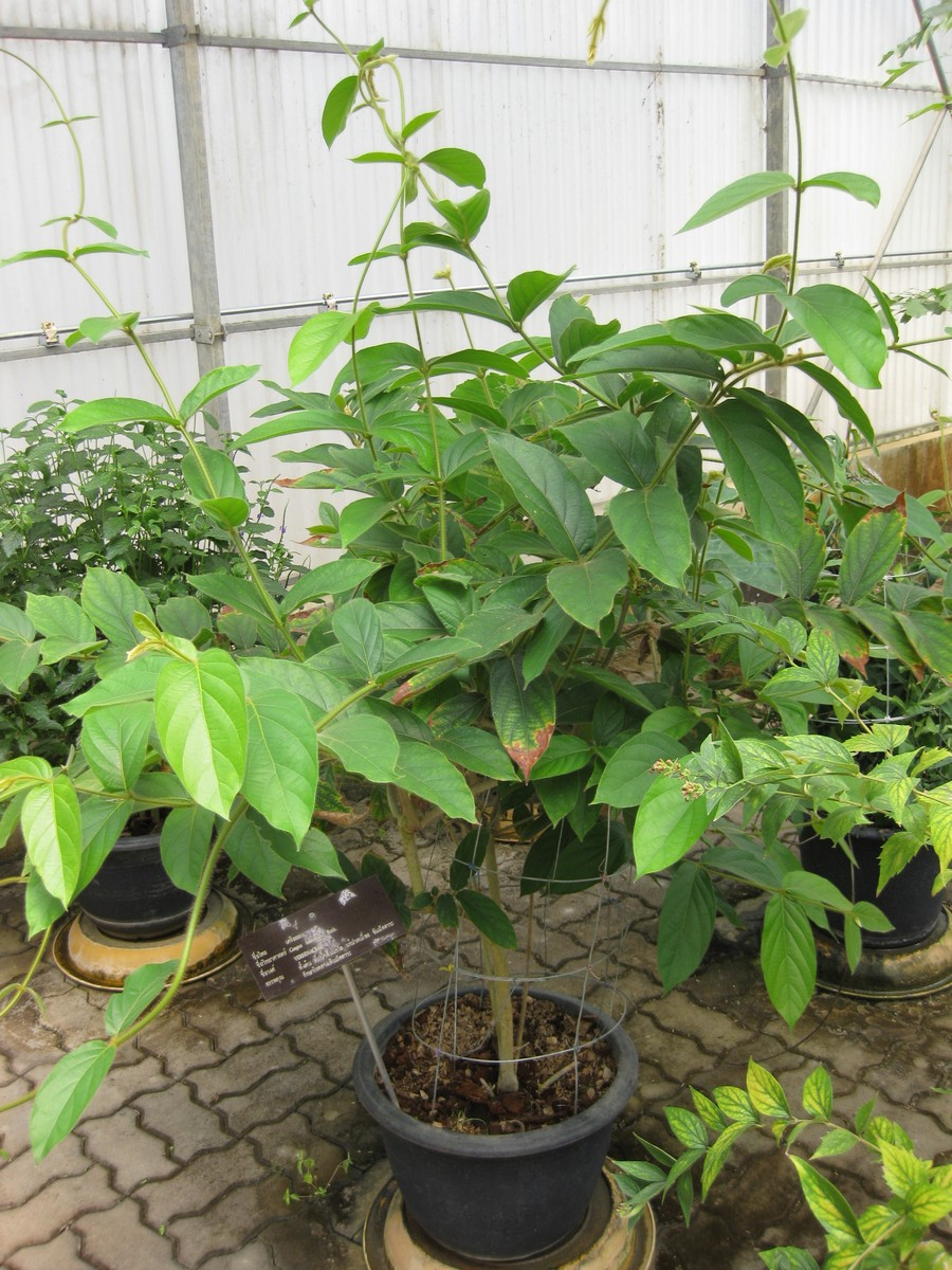 Photographed at the Queen Sirikit Botanic Garden (Chiang Mai Province, Thailand) in March